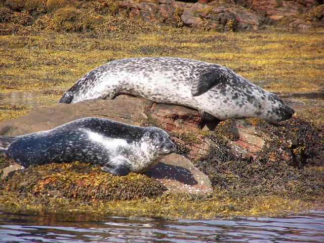 Basking in the warm September sunshine.. That last fish was just too - too much.... Boat trip advertised whale watching but these guys kept us amused. Great trip, no whales.